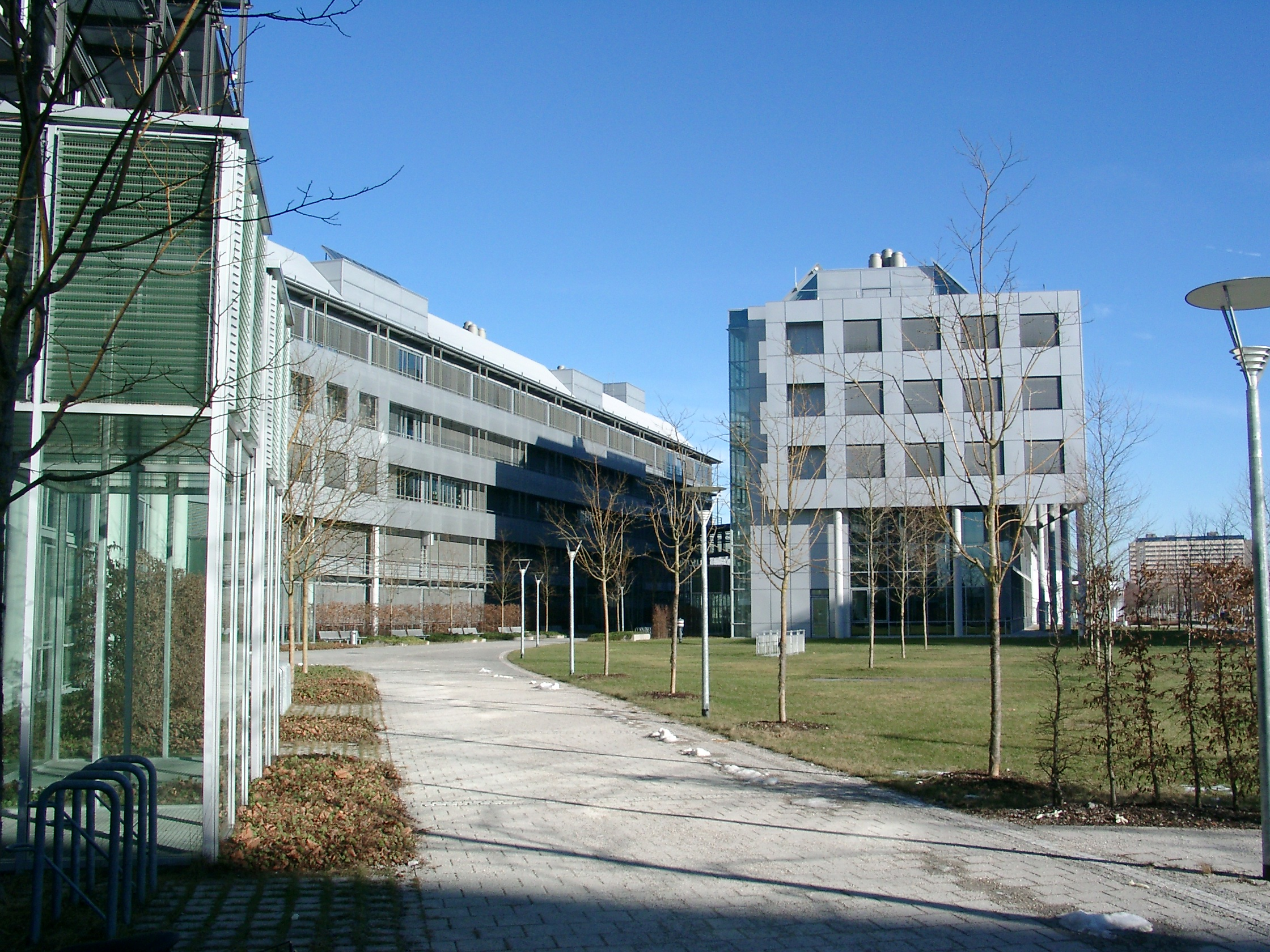 New buildings of the chemistry faculty of the Ludwig Maximilians Universität munich in Martinsried 2003